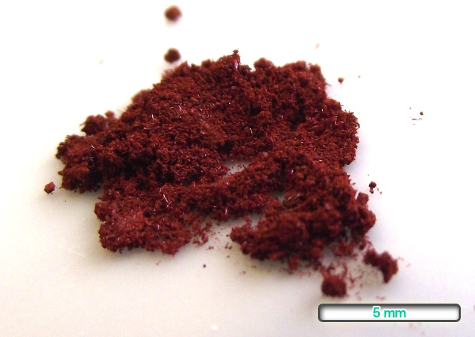 Photo of Acriflavinium chloride, pure